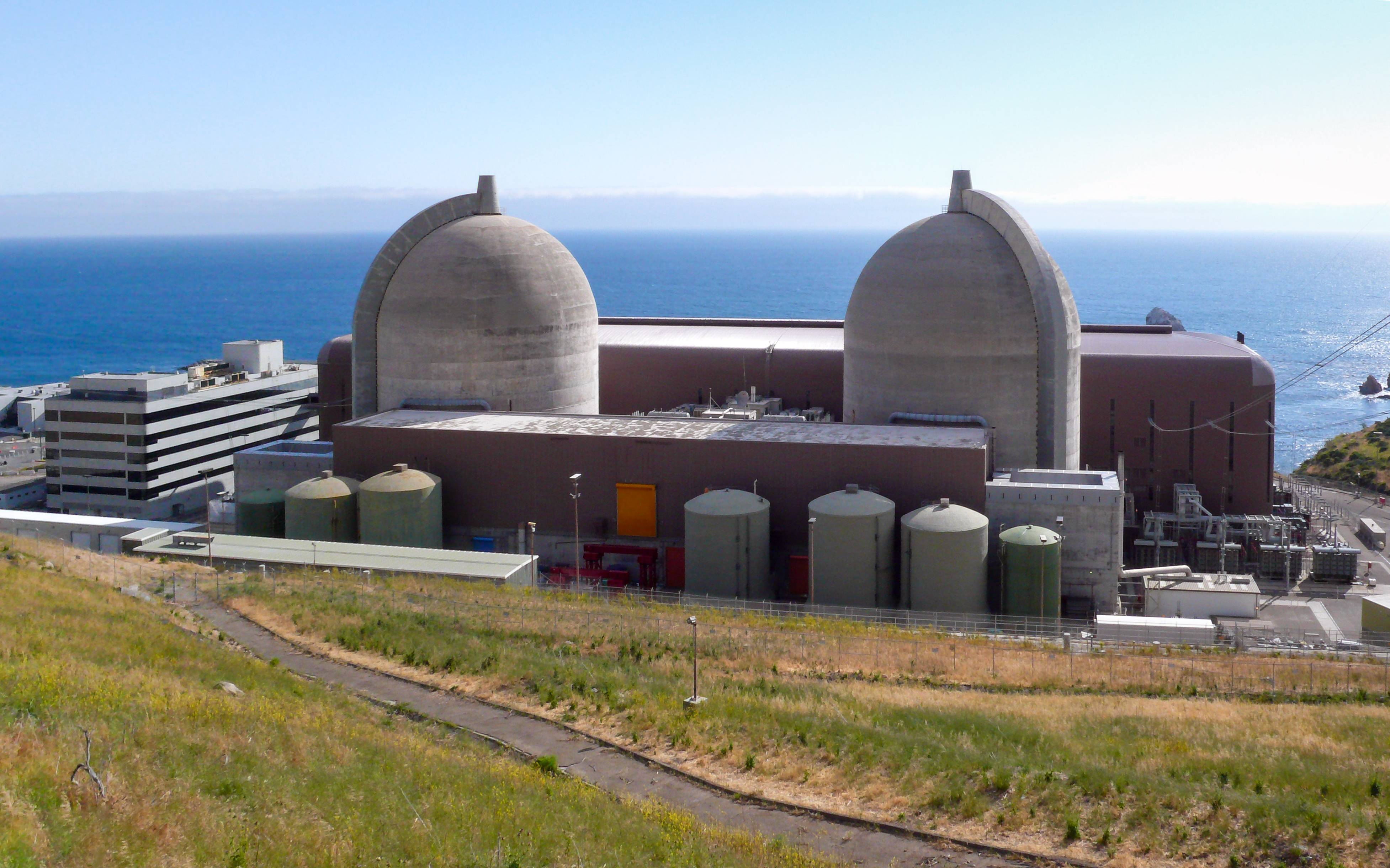 Diablo Canyon Family Open House